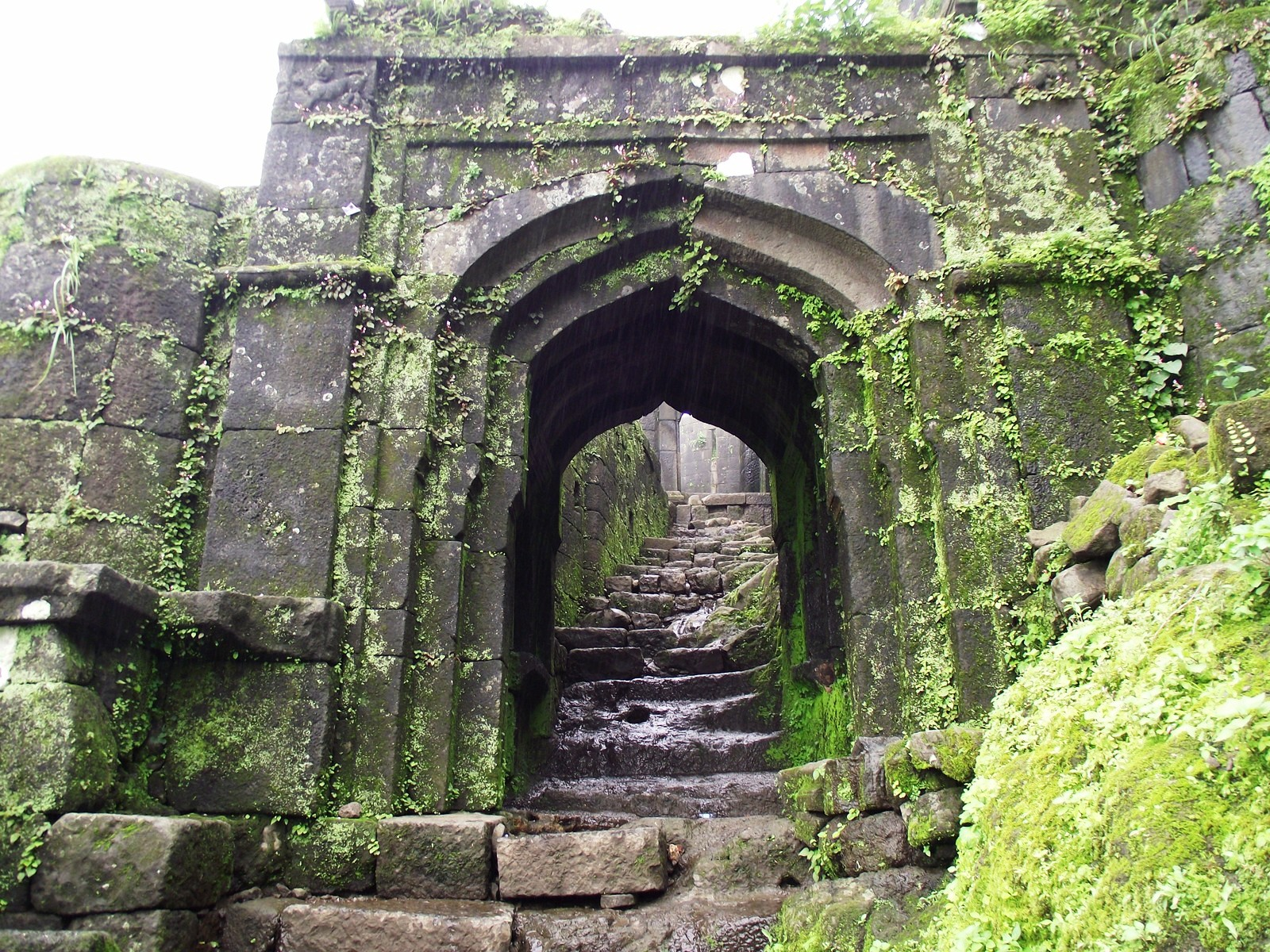 Lohagad Fort